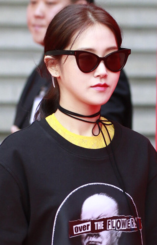 Heo Ga-yoon at the Seoul Fashion Week on March 24, 2016.